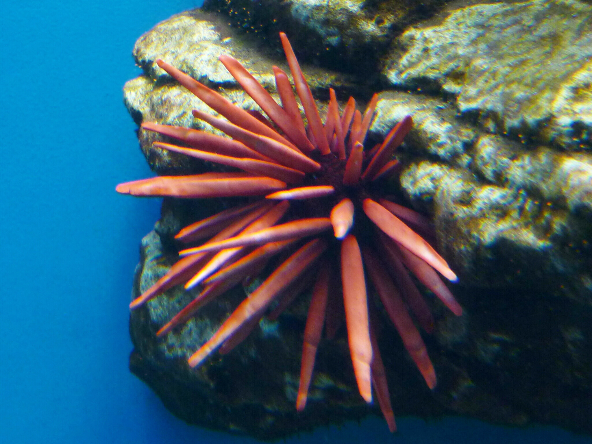 Slate-Pencil Sea Urchin (Heterocentrotus mamillatus) in Waikiki Aquarium.